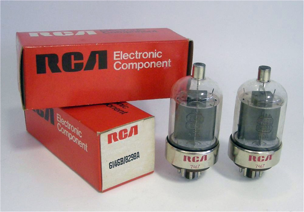 tetrode 6146B